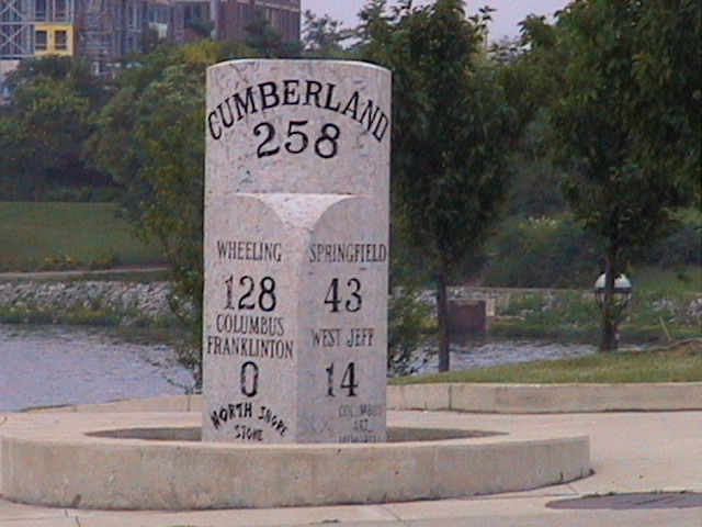 Mile marker along the National Road, located in Columbus, Ohio. Digital photo taken July 15, 2005.